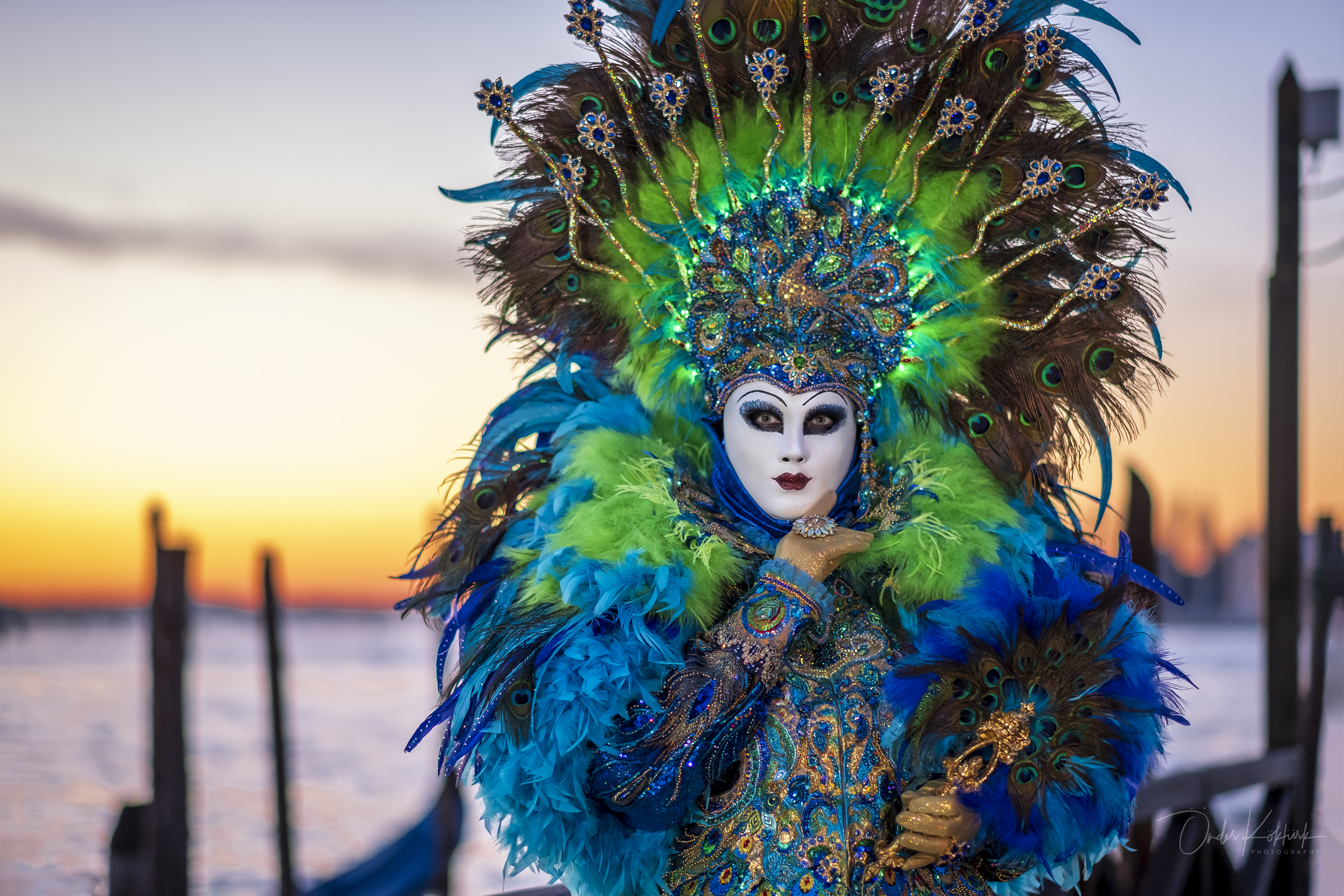 Carnival of Venice 2020